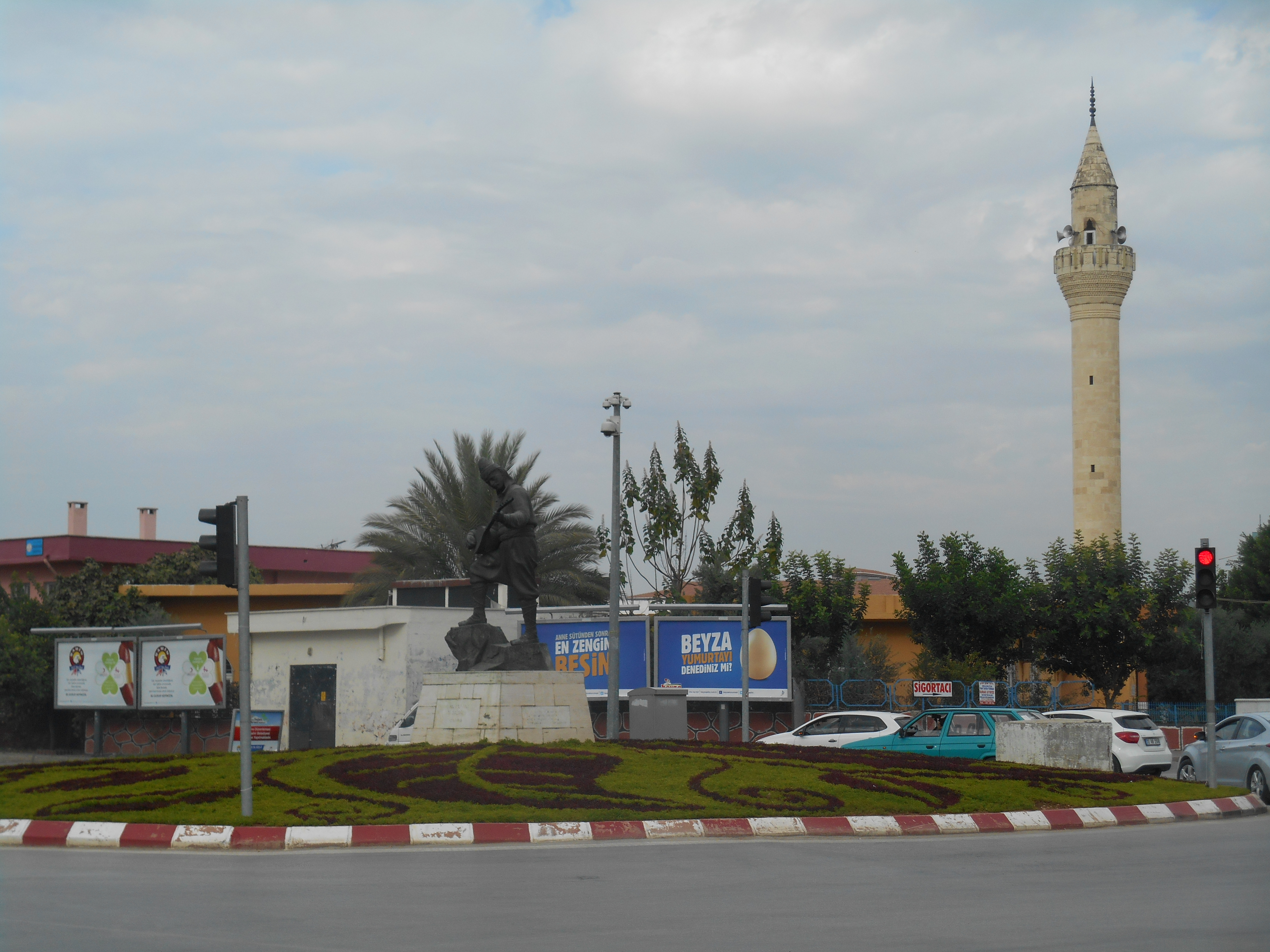 View from Yüreğir